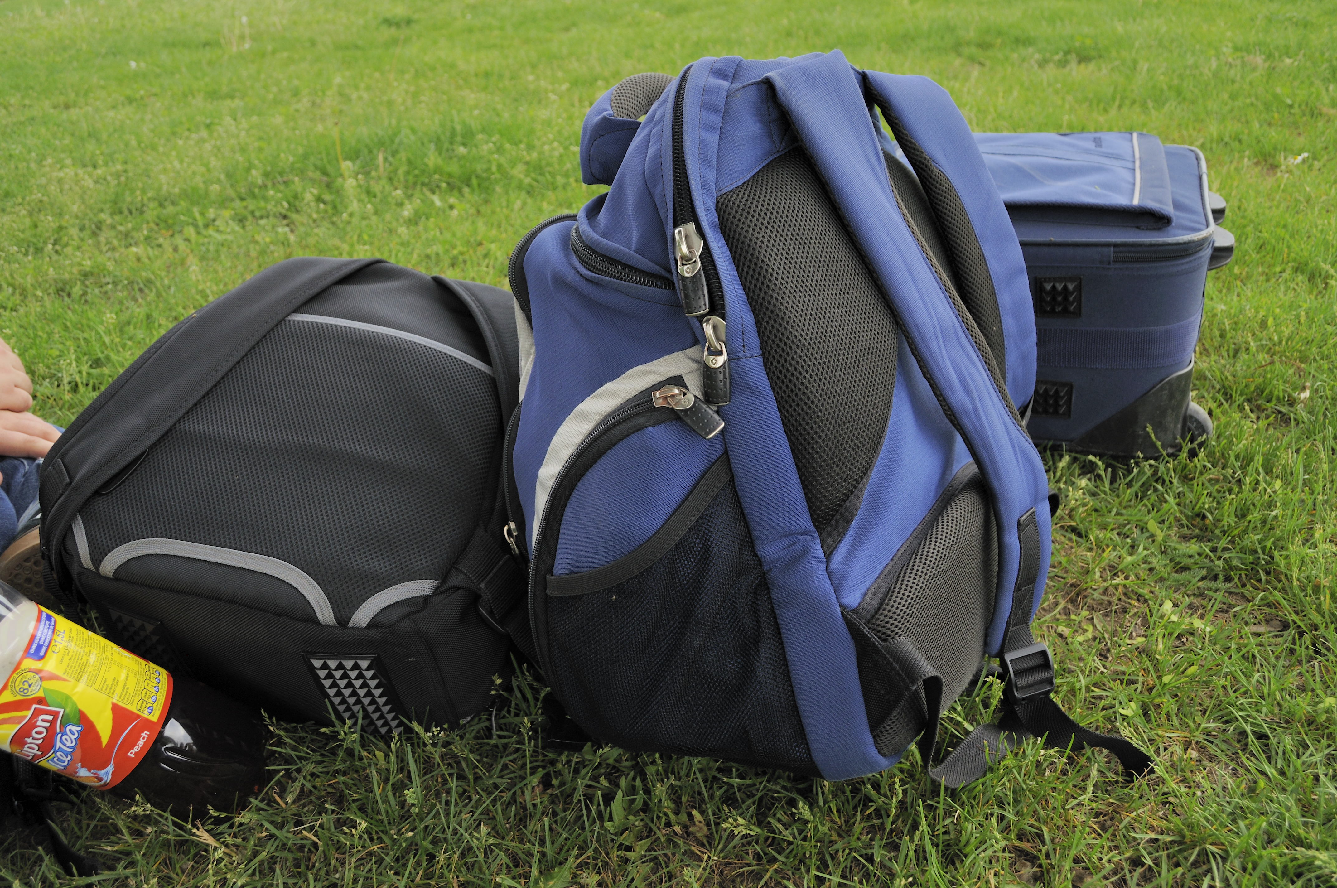 Backpack.